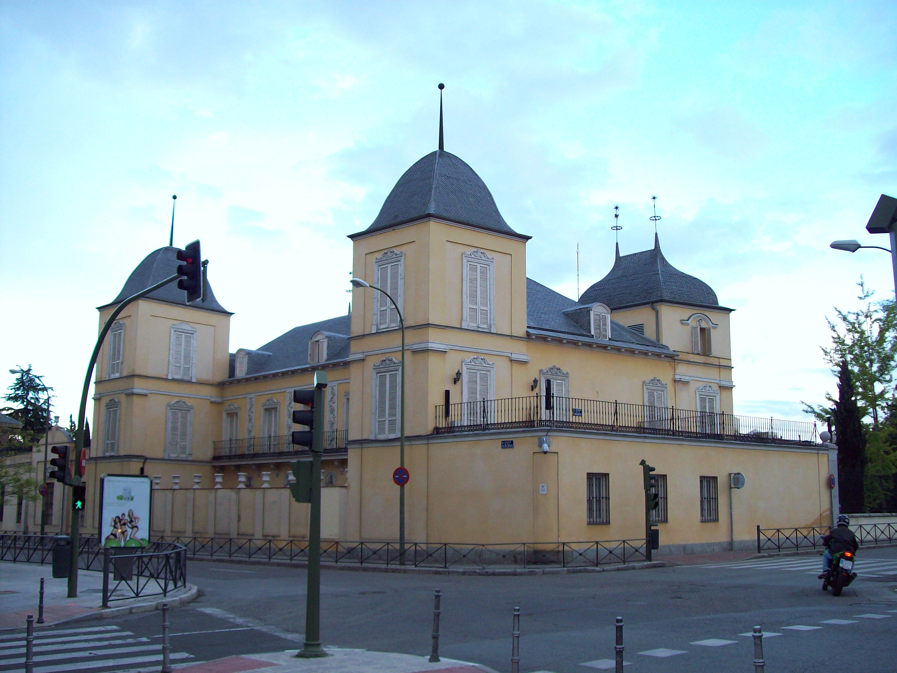 Façade of Gilhou Palace, at 2 Calle de Platerías (street) in Chamartín district in Madrid (Spain). It was built in the middle of the 19th century for French financier and industrialist Louis Guilhou Rives. Nowadays it belongs to O.N.C.E..